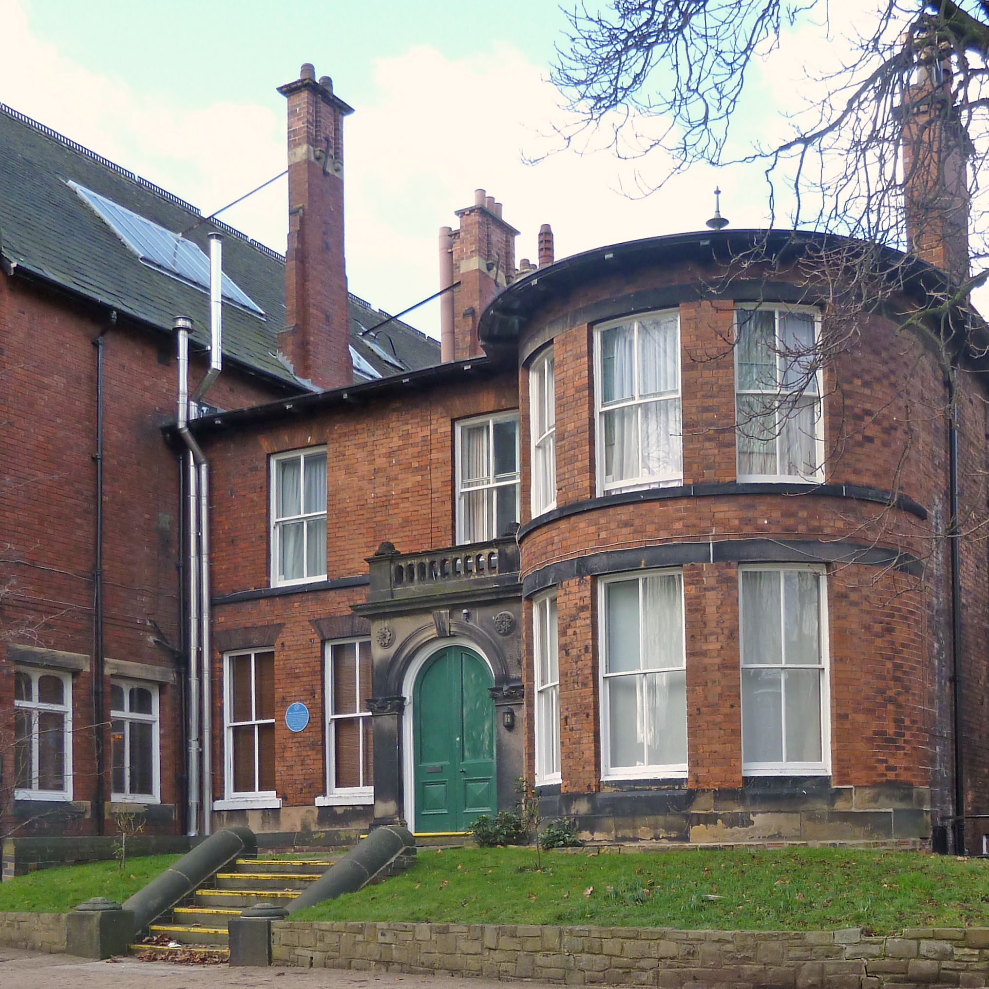 Lyddon Hall, University of Leeds, Leeds, West Yorkshire. This was the home of Sir Clifford Albutt, inventor of the clincal thermometer. ( see: [1]) Taken by Flickr user:Tim Green aka atouch on Wednesday the 6th of February 2013.